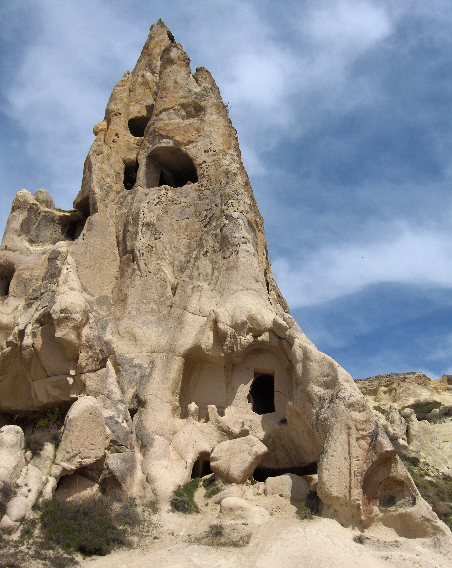 Rock formations and habitations in the open-air Museum of Göreme, in Göreme National Park, Cappdocia, Turkey.